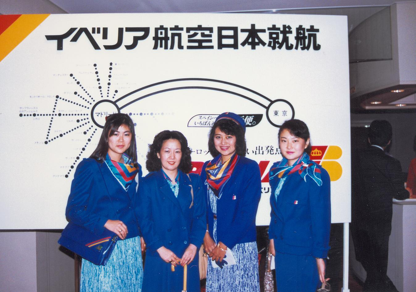 On 1 May 1986 was launched the Madrid-Tokyo route by the Boeing 747 christened Francisco de Quevedo (registration EC-DLC). This photo was taken at Iberia's Japanese office, opened by the airline's general manager Juan Viniegra, along with other Iberia executives and employees from Spain and Japan. The route was twice weekly, with stops in Madrid, Barcelona, and Bombay.